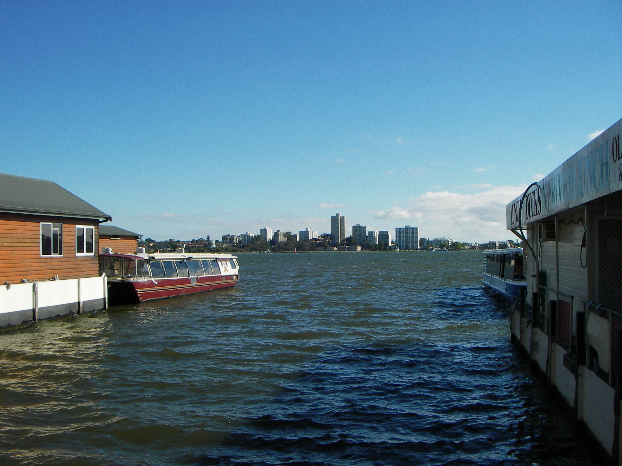 Perth Water Barrack Square, taken by me for this page